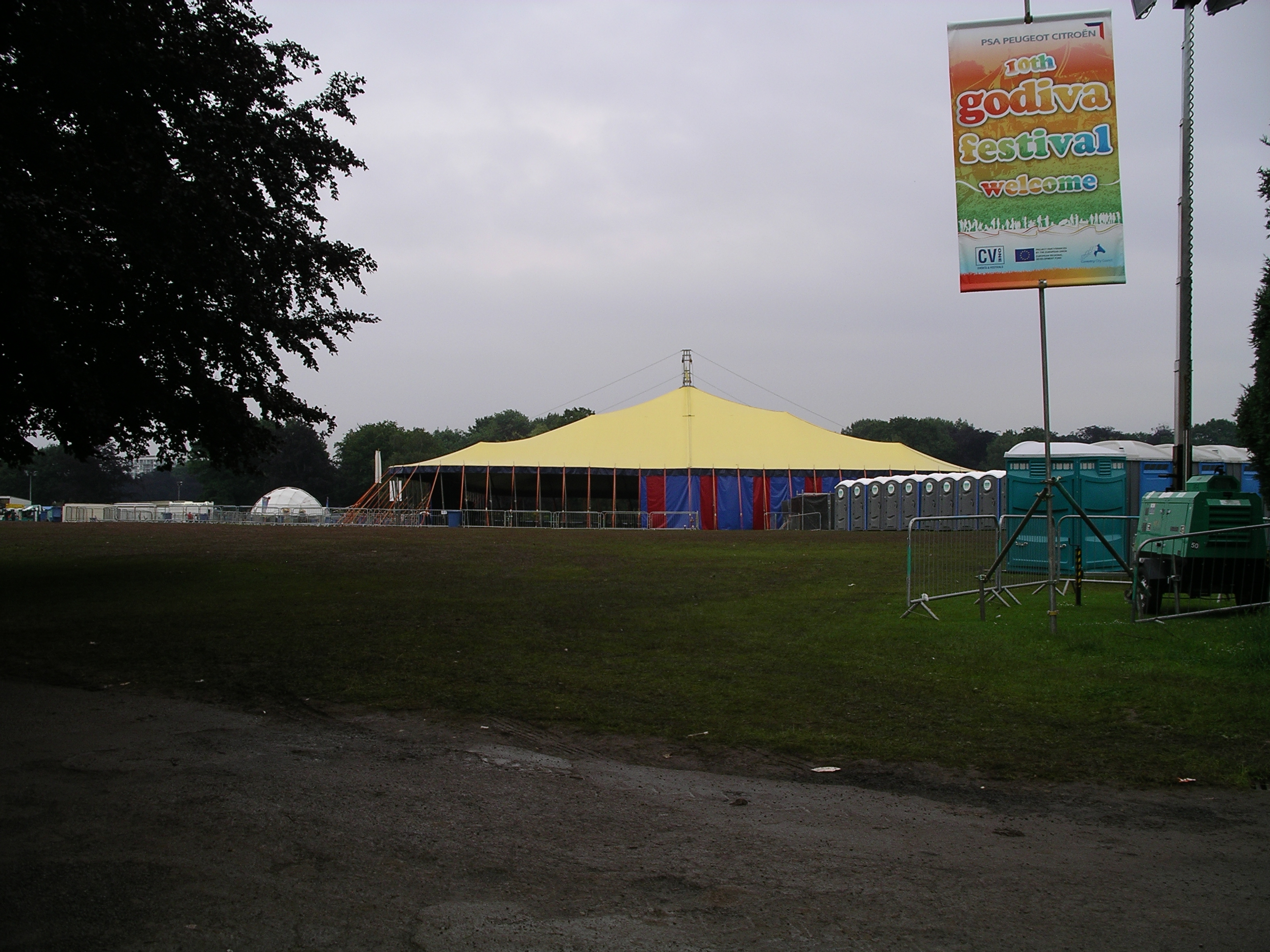 One of the large tents at the Godiva Festival 2007, held in the War Memorial Park, Coventry, England. Photo taken on Sunday hours after the end of the festival.